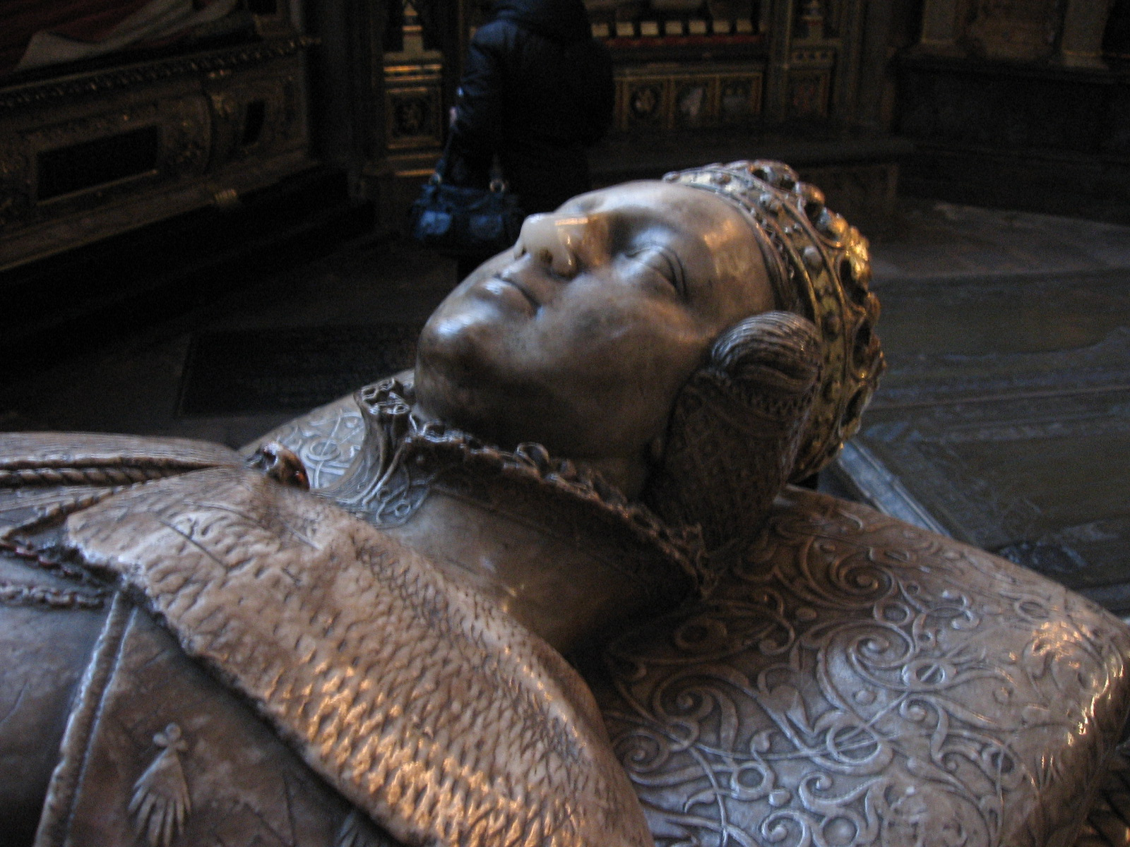 Marble tomb of Frances Brandon, Duchess of Suffolk in Westminster Abbey, St. Edmunds Chapel, erected four years after her death by her second husband, Adrian Stokes. She is depicted wearing the ermine mantle and crown of a duchess and holds a book of prayer in her hands. The effigy is in good condition although covered in incised names and the nose had to be mended at one point.